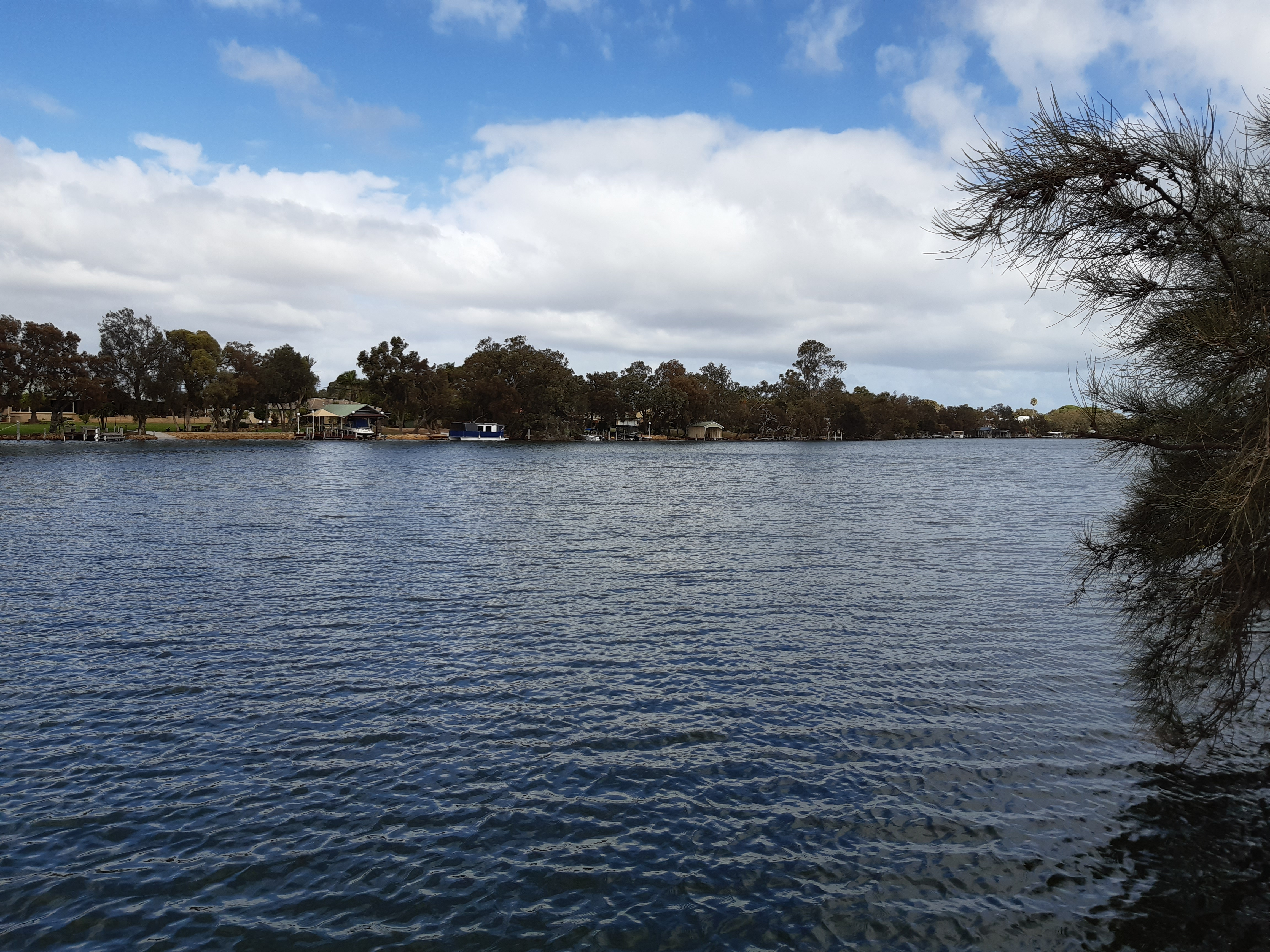 The Murray River at North Yunderup, Western Australia. The image was taken at the small jetty and boat ramp at the southern end of North Yunderup Road. Looking downstream.